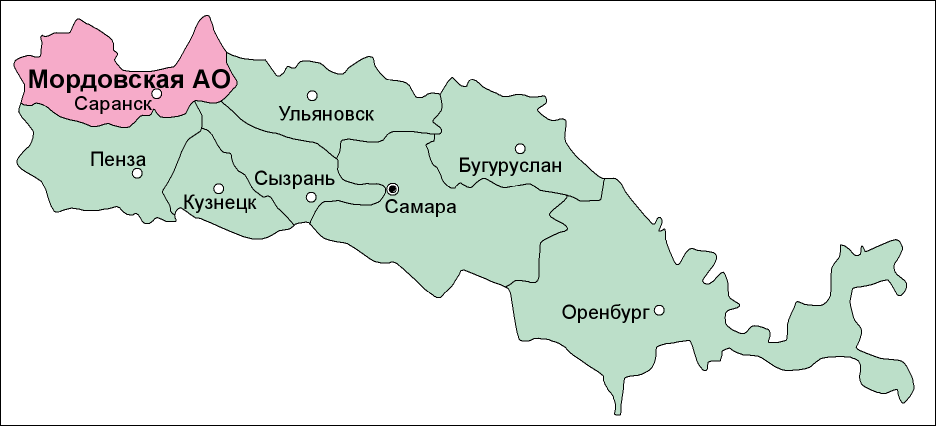 Map of Sredne-Volzhskiy kray (USSR, 1930)